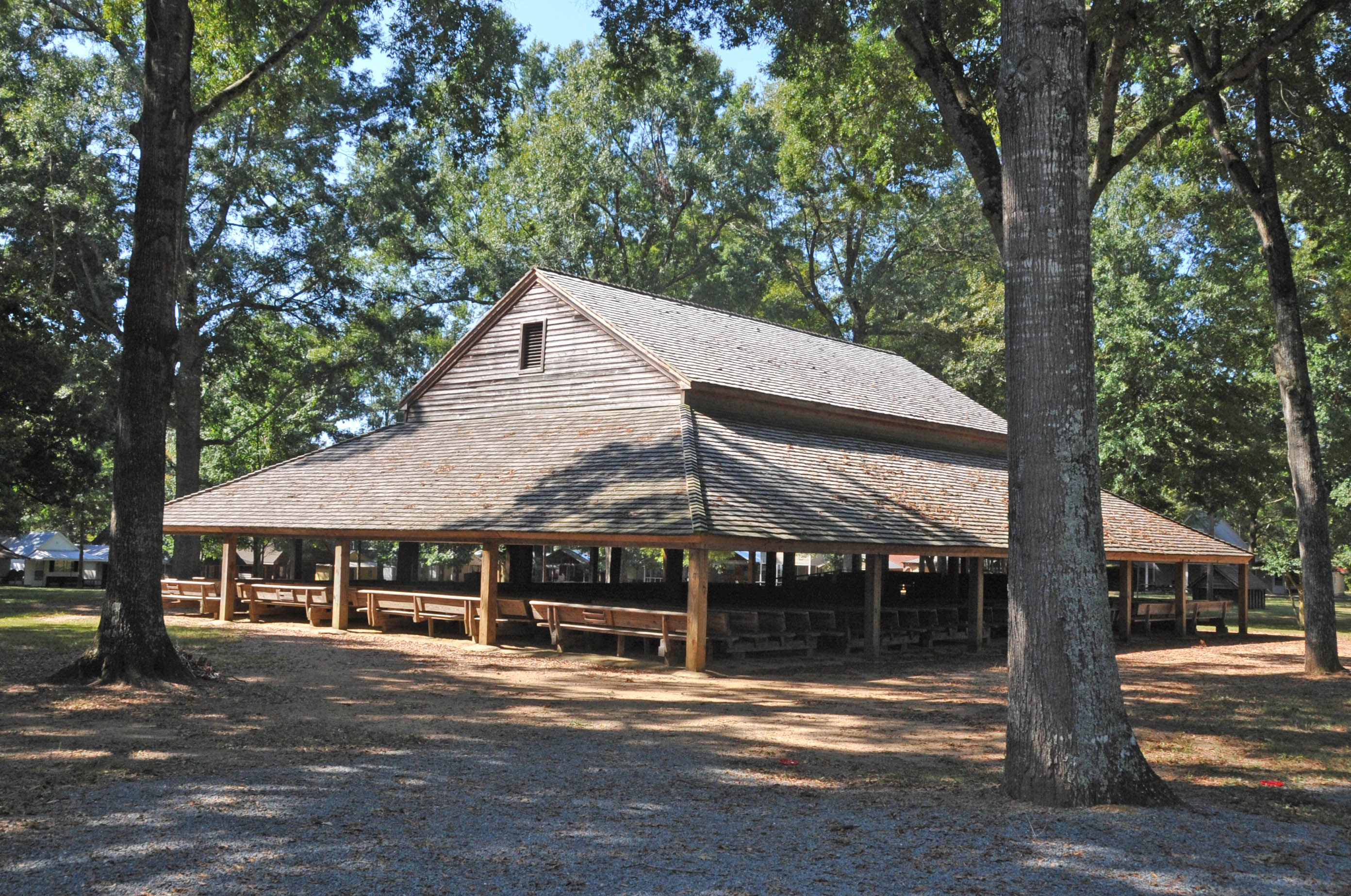 CAMP GROUND RUN BY THE METHODIST CHURCH FROM CIRCA 1830. MEETING PLACE LOCATED IN THE CENTER OF A RECTANGULAR COMPLEX